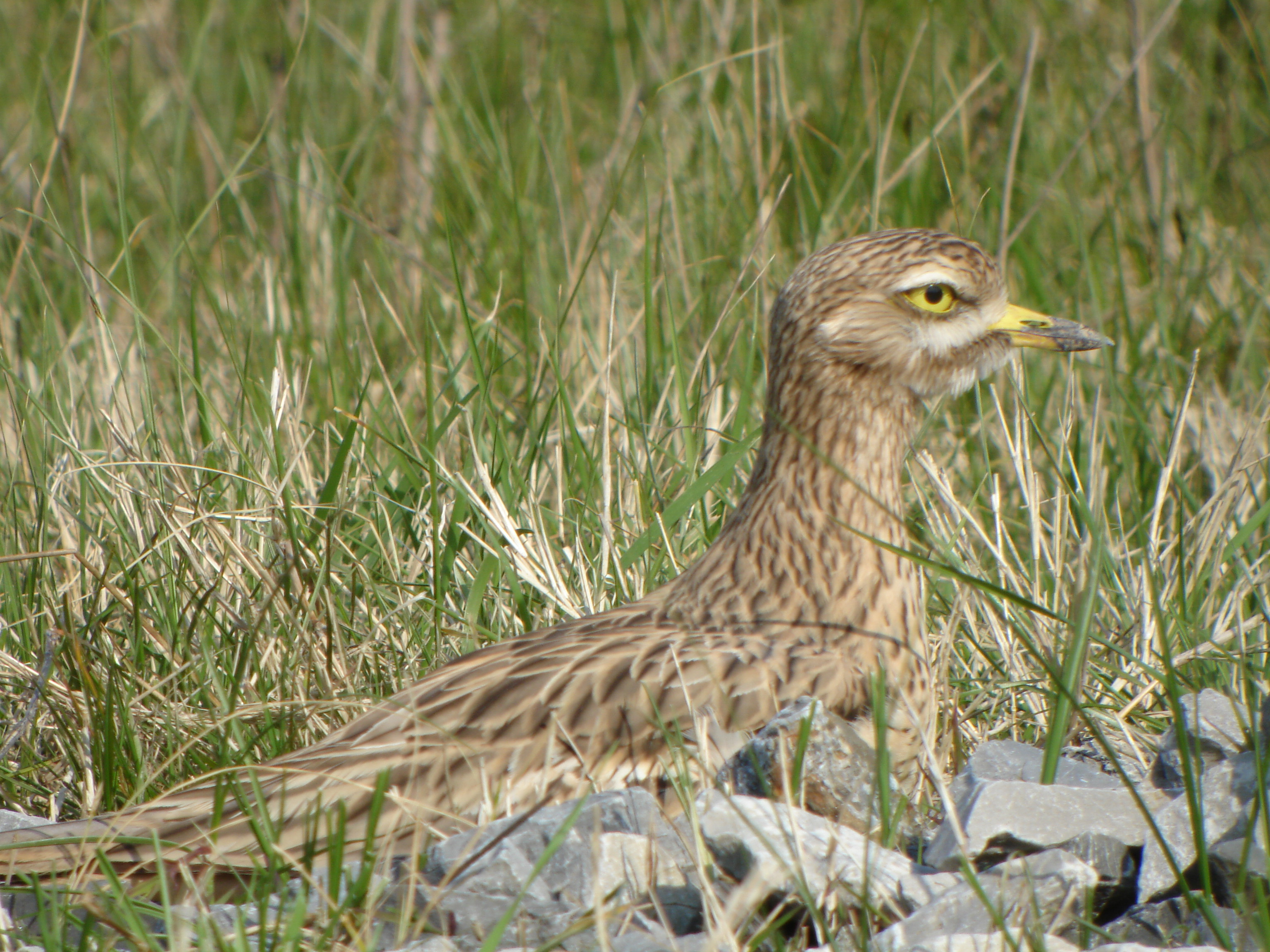 Eurasian Thick-knee (Burhinus oedicnemus) - Photographed at Teich Bird Reserve, France